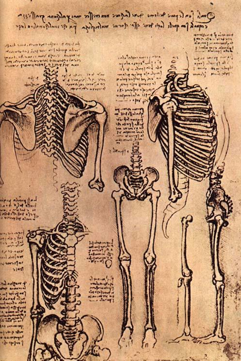 Study of Skeletons